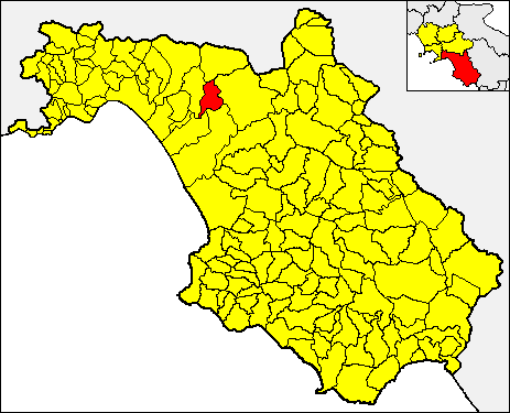 Locator map of the municipality of Olevano sul Tusciano (red) within the Province of Salerno